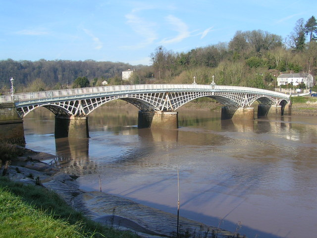 Bridge over Wye